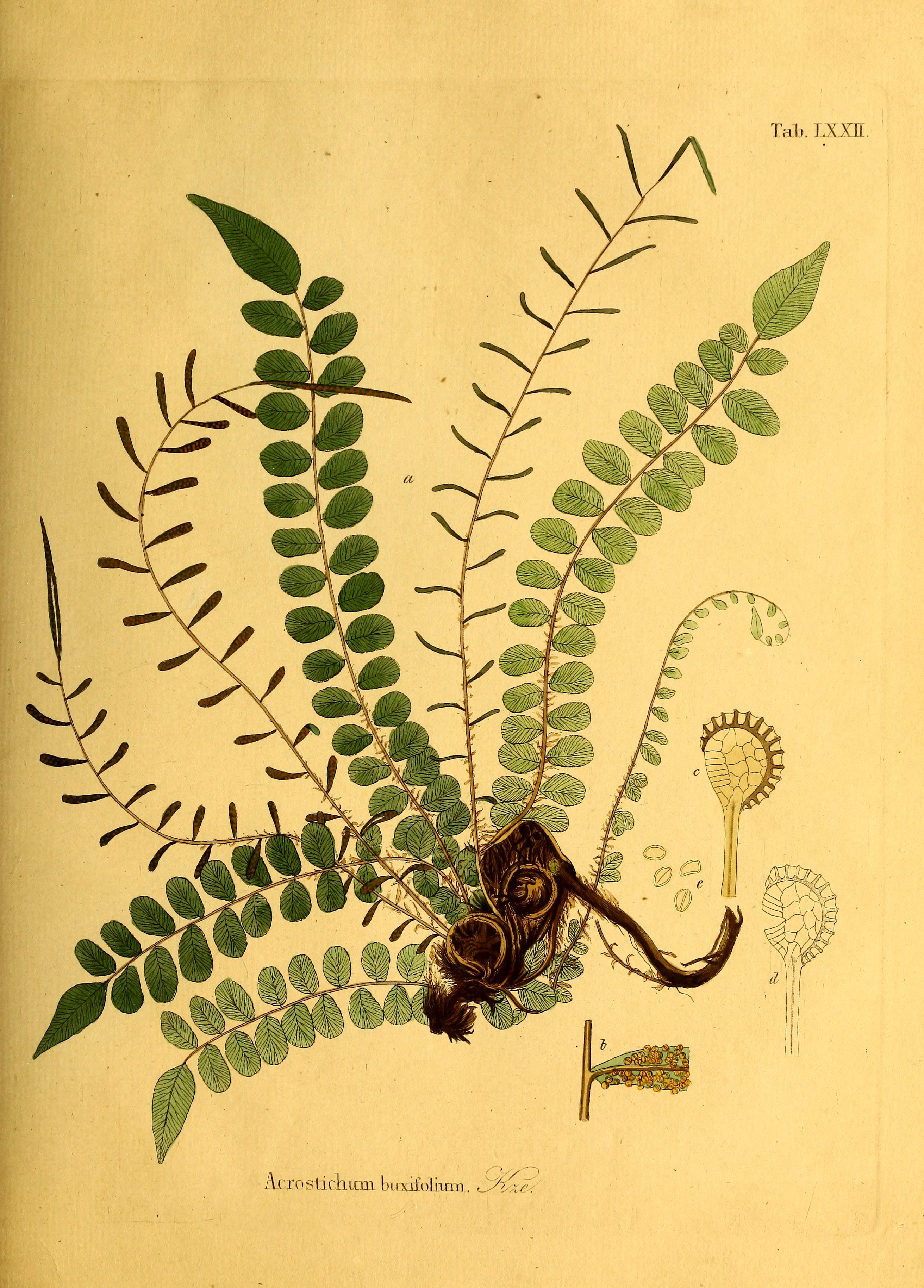 Title: Die Farrnkräuter in kolorirten Abbildungen naturgetreu Erläutert und Beschrieben Year: 1840 (1840s) Authors: Kunze, Gustav, 1793-1851 Subjects: Ferns Publisher: Leipzig, E. Fleischer Text Appearing Before Image: ' Text Appearing After Image: '